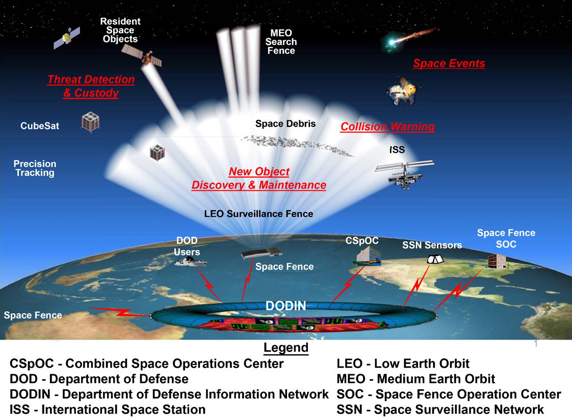 Diagram of Space Fence and the Space Surveillance Network.